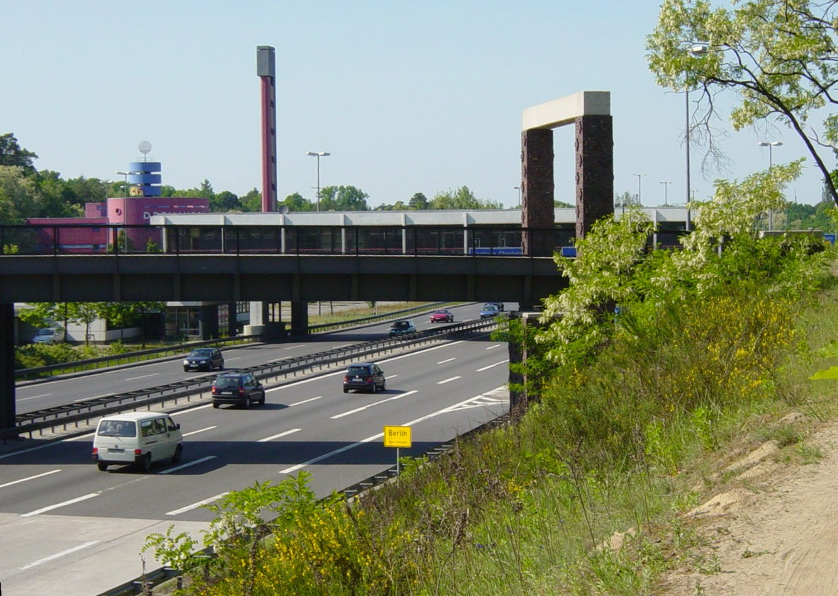 Former checkpoint Dreilinden at the Autobahn to Berlin